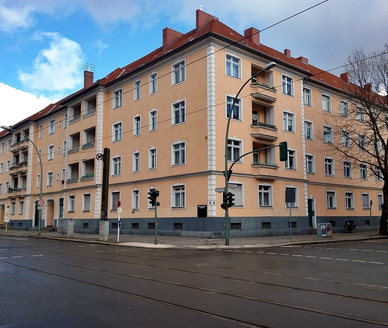 Housing Lichtenberg